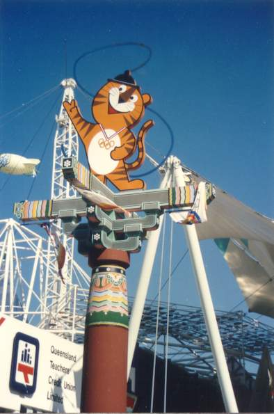 Mascot for the Seoul Olympic Games in 1988 at South Korean Pavilion ( this photograph was taken by Figaro )